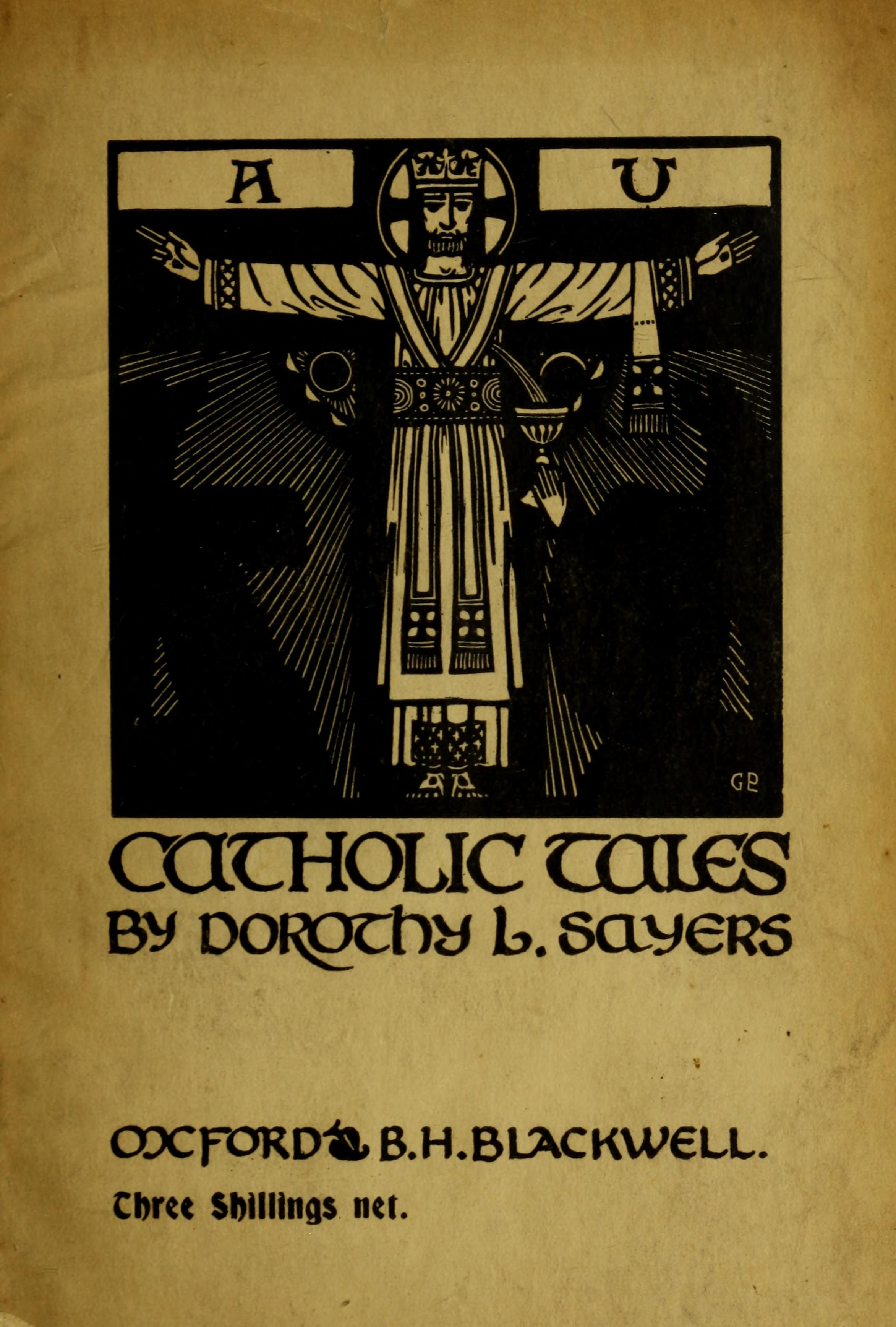 Book cover for the 1918 collection of poetry Catholic Tales and Christian Songs